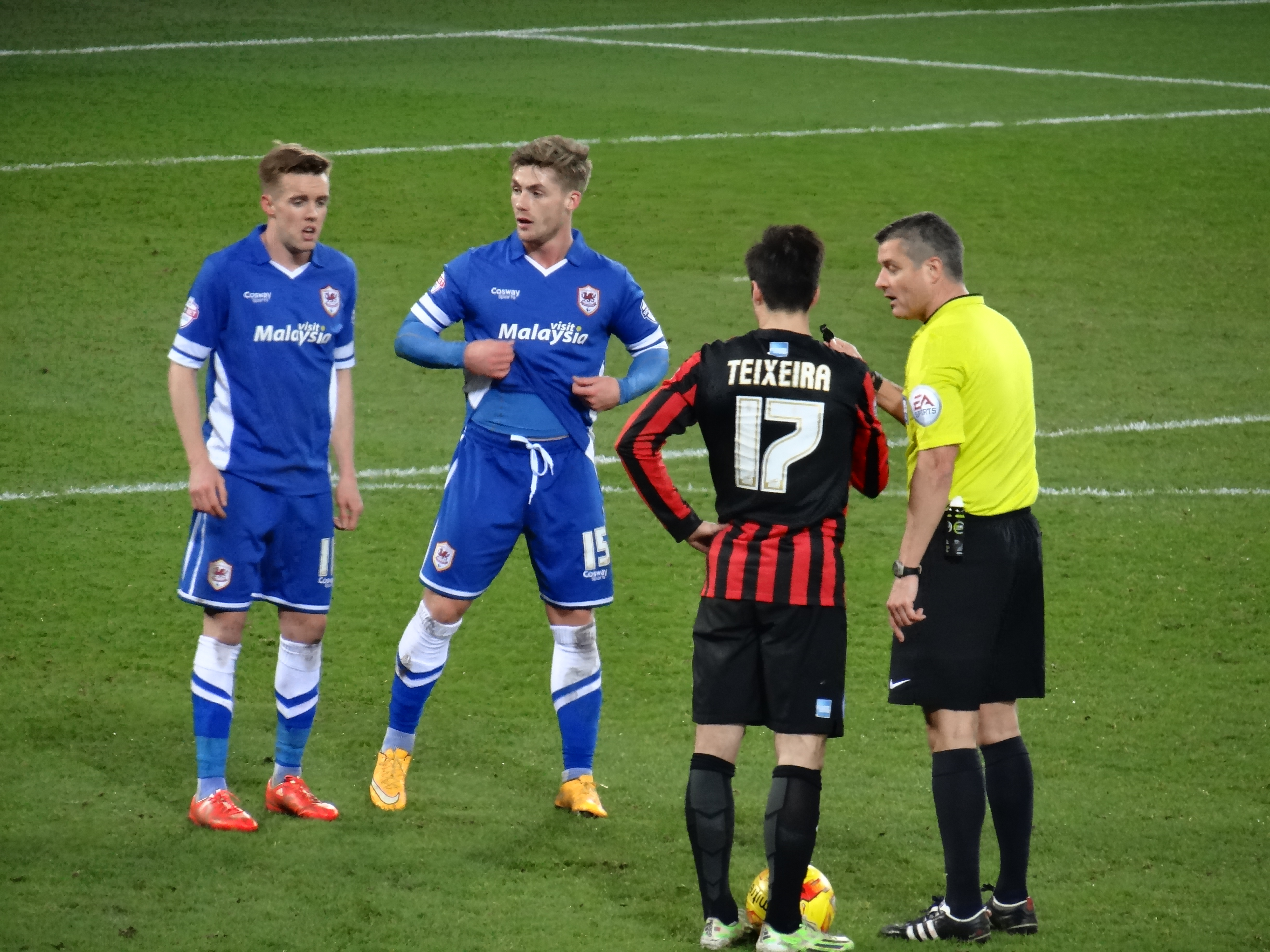 Cardiff City players Craig Noone and Matthew Connolly, Brighton and Hove Albion player João Carlos Teixeira and referee Iain Williamson.